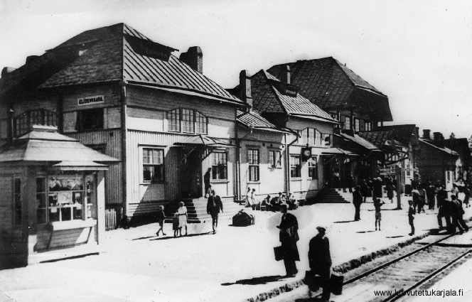 The railway station of Elisenvaara in Kurkijoki (nowadays District of Lakhdenpokhsky, Republic of Karelia, Russia) in the Finnish Karelia ceded to the Soviet Union in 1944. The station building was destroyed in bombings in February 1940.